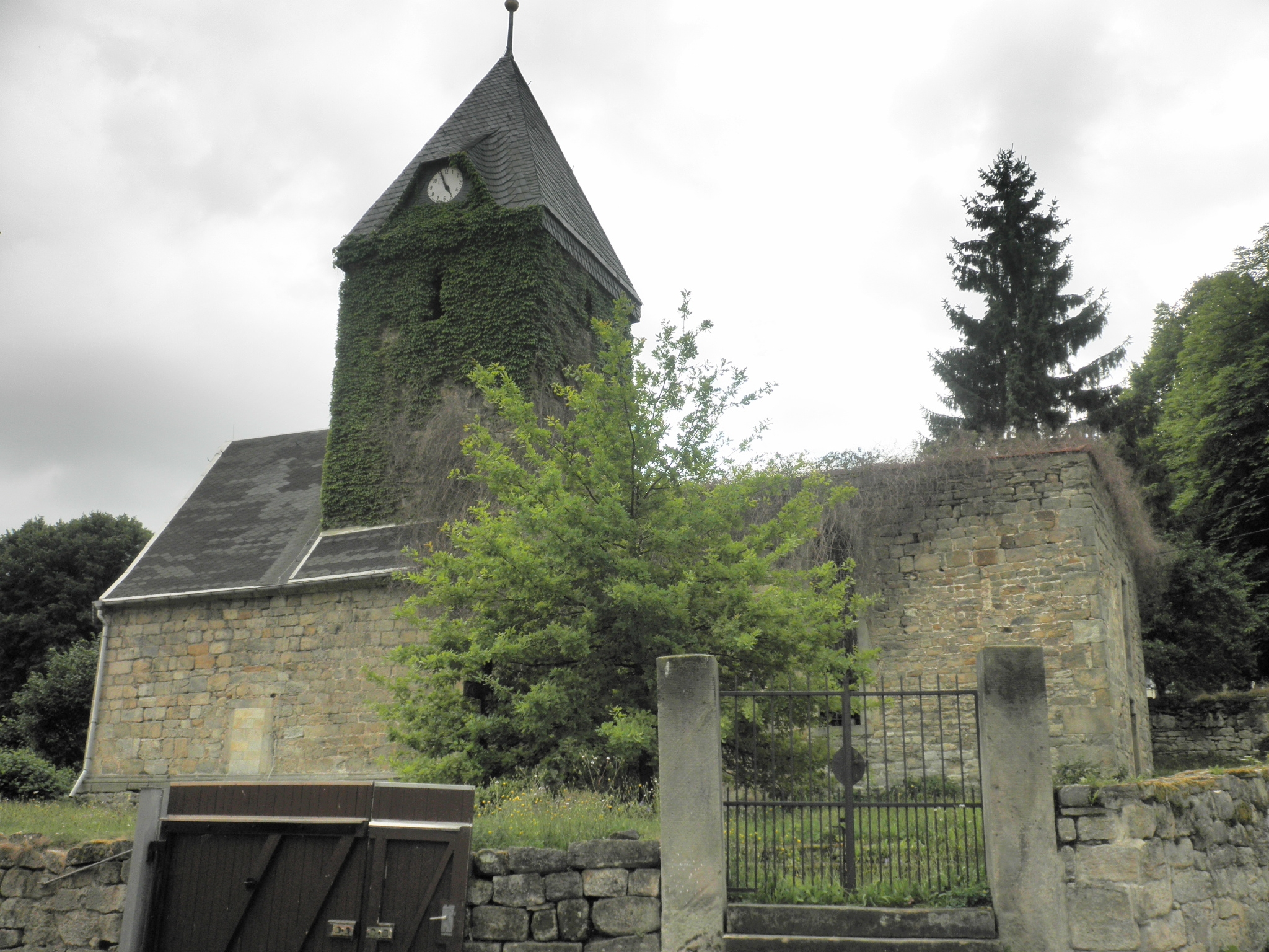 Oberwillingen (Thuringia) Church